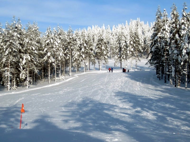 A view on a high quality snow golf course.